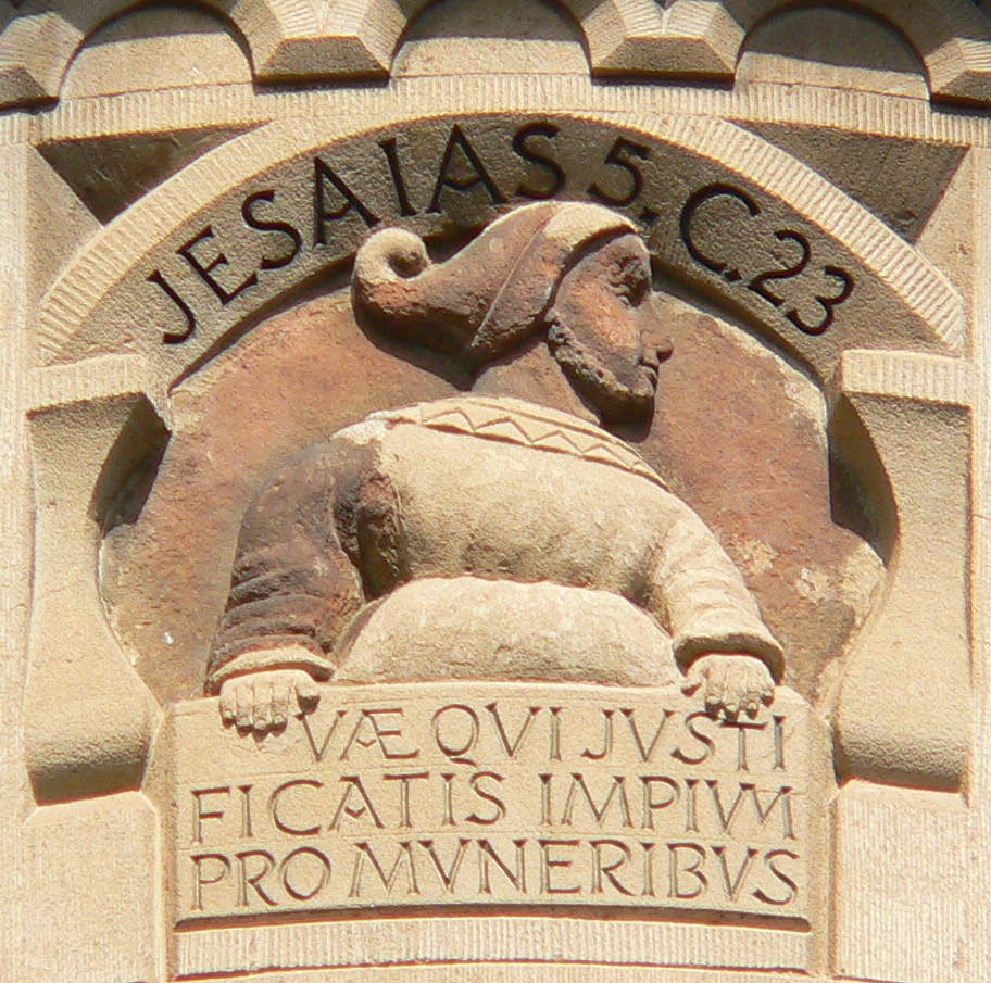 Prophet Jeseja on the "Käthchenhaus" of Heilbronn/Germany